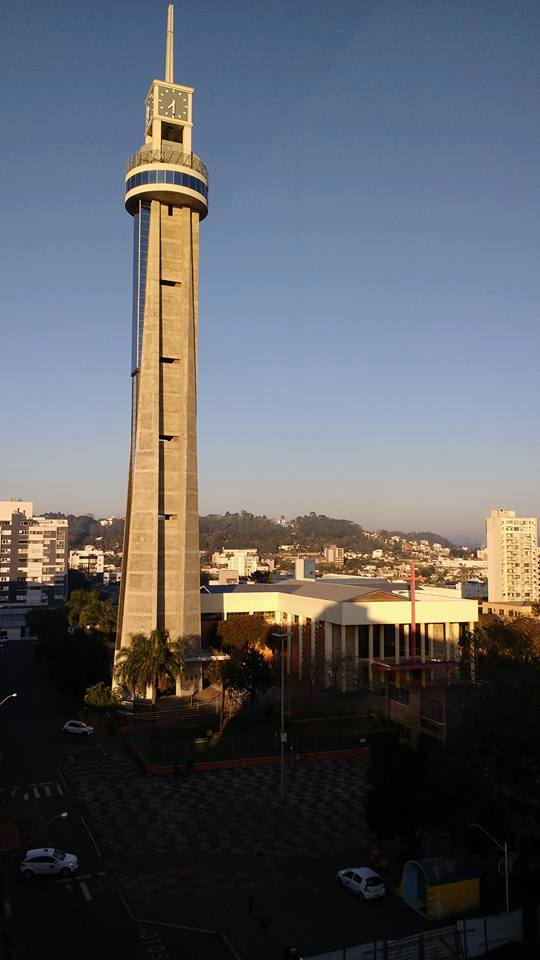 Photo of the Tower of Concatedral Nossa Senhora da Glória, Francisco Beltrão, state of Parana.